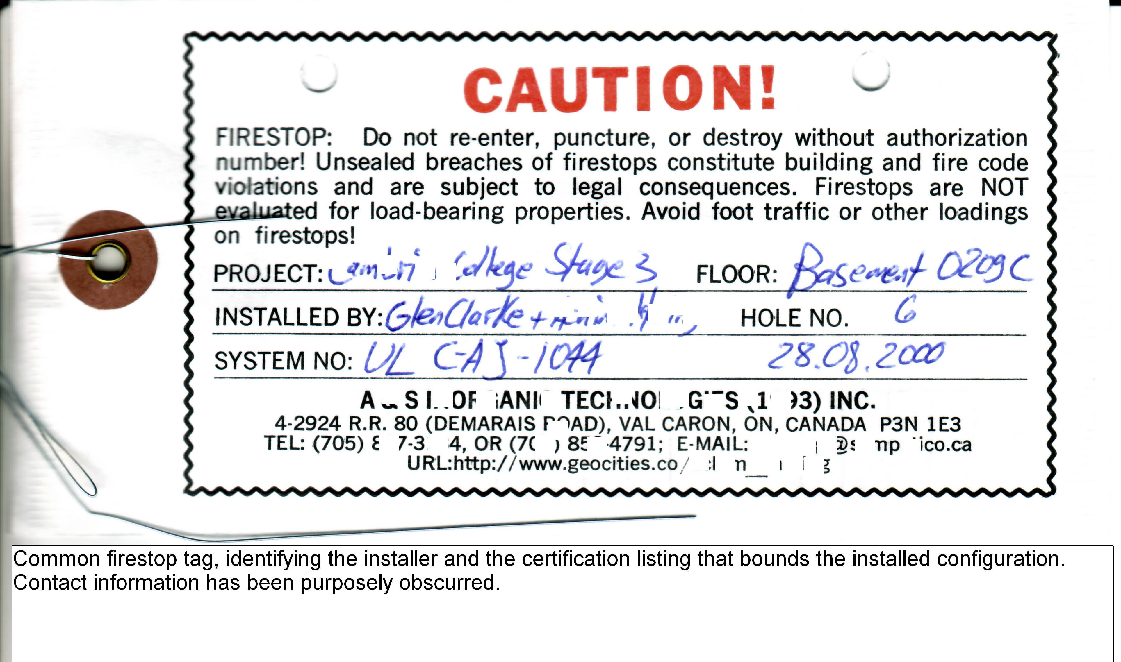 Firestop tag front, identifying installer, location and certification listing that bounds the installed configuration. This tag was printed on Tyvek for durability. It has an eyelet and a stainless steel wire for securing onto the firestop or a penetrant.